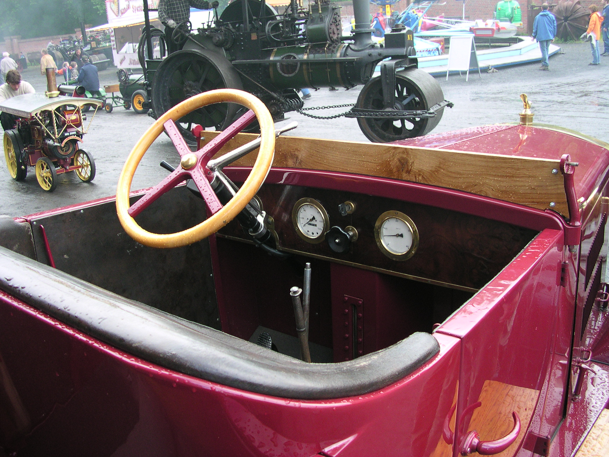 5th steam festival in Bochum, Germany 2007. Doble steam car